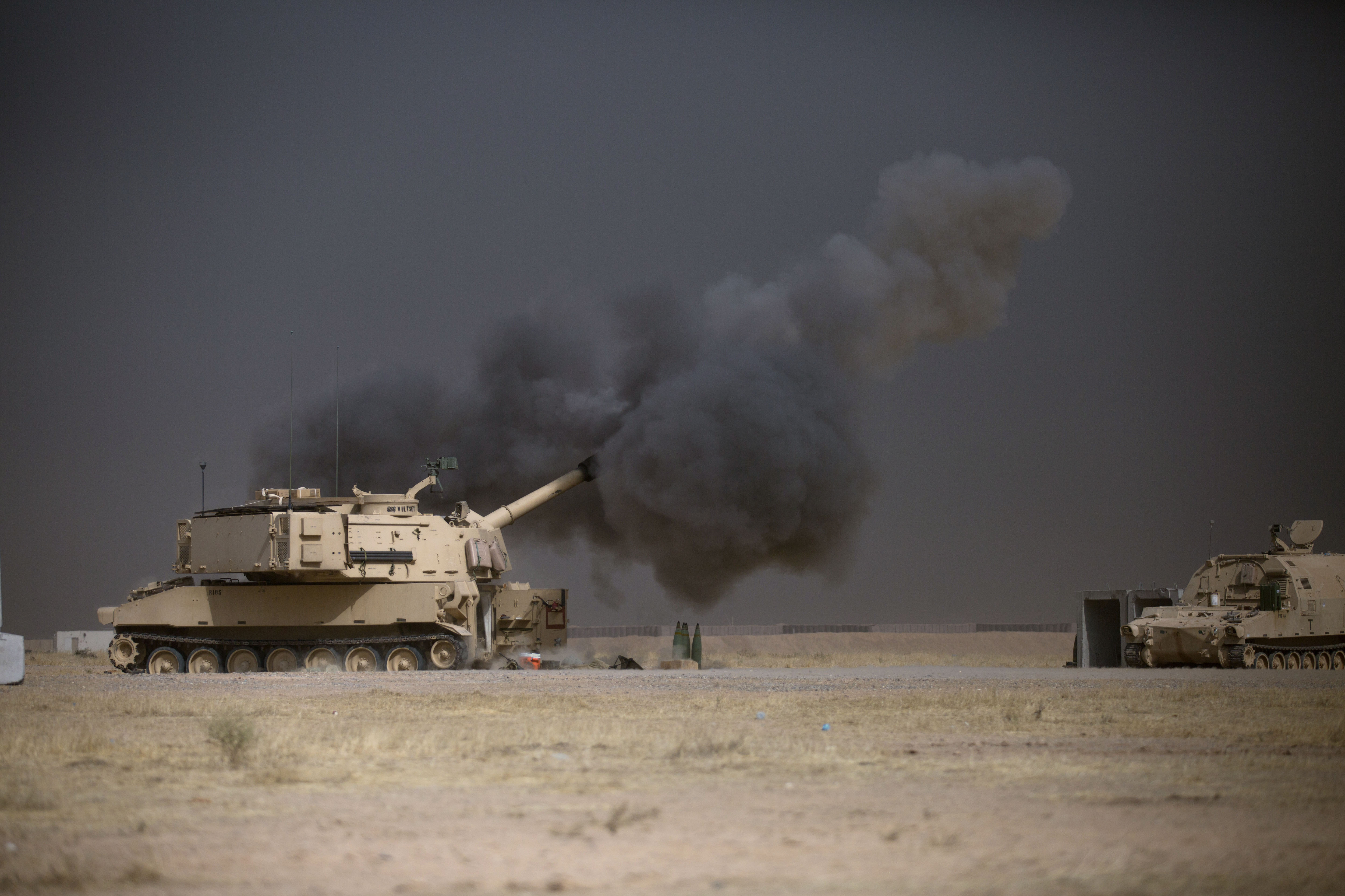 A U.S. Army M109A6 Paladin conducts a fire mission at Qayyarah West, Iraq, in support of the Iraqi security forces’ push toward Mosul, Oct. 17, 2016. The support provided by the Paladin teams denies the Islamic State of Iraq and the Levant safe havens while providing the ISF with vital artillery capabilities during their advance. The United States stands with a Coalition of more than 60 international partners to assist and support the Iraqi security forces to degrade and defeat ISIL. (U.S. Army photo by Spc. Christopher Brecht)